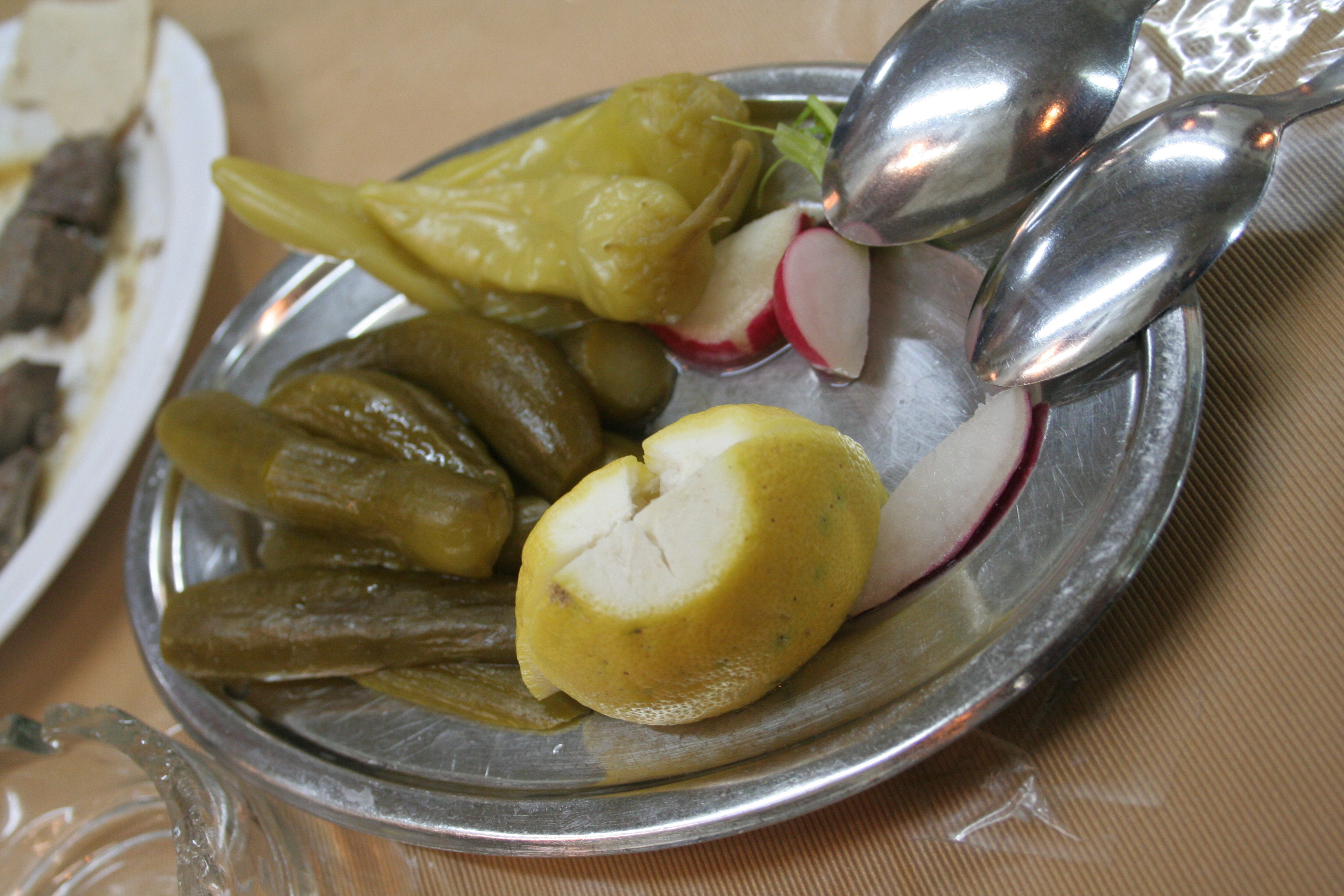 Pickled Vegetables. Photo taken in a fast-food restaurant in Damascus, Syria.